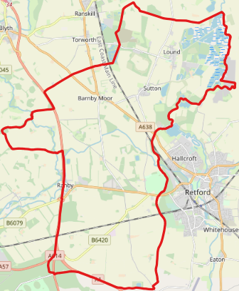 Map of the Sutton ward of Bassetlaw. This map may be incomplete, and may contain errors. Don't rely solely on it for navigation.